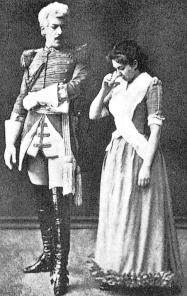 The Russian actor and director Constantin Stanislavski (Константин Сергеевич Станиславский) with his wife Maria Lilina as Ferdinand and Louise in Friedrich Schiller's tragedy Love and Intrigue, performed in 1889 by The Society of Art and Literature.